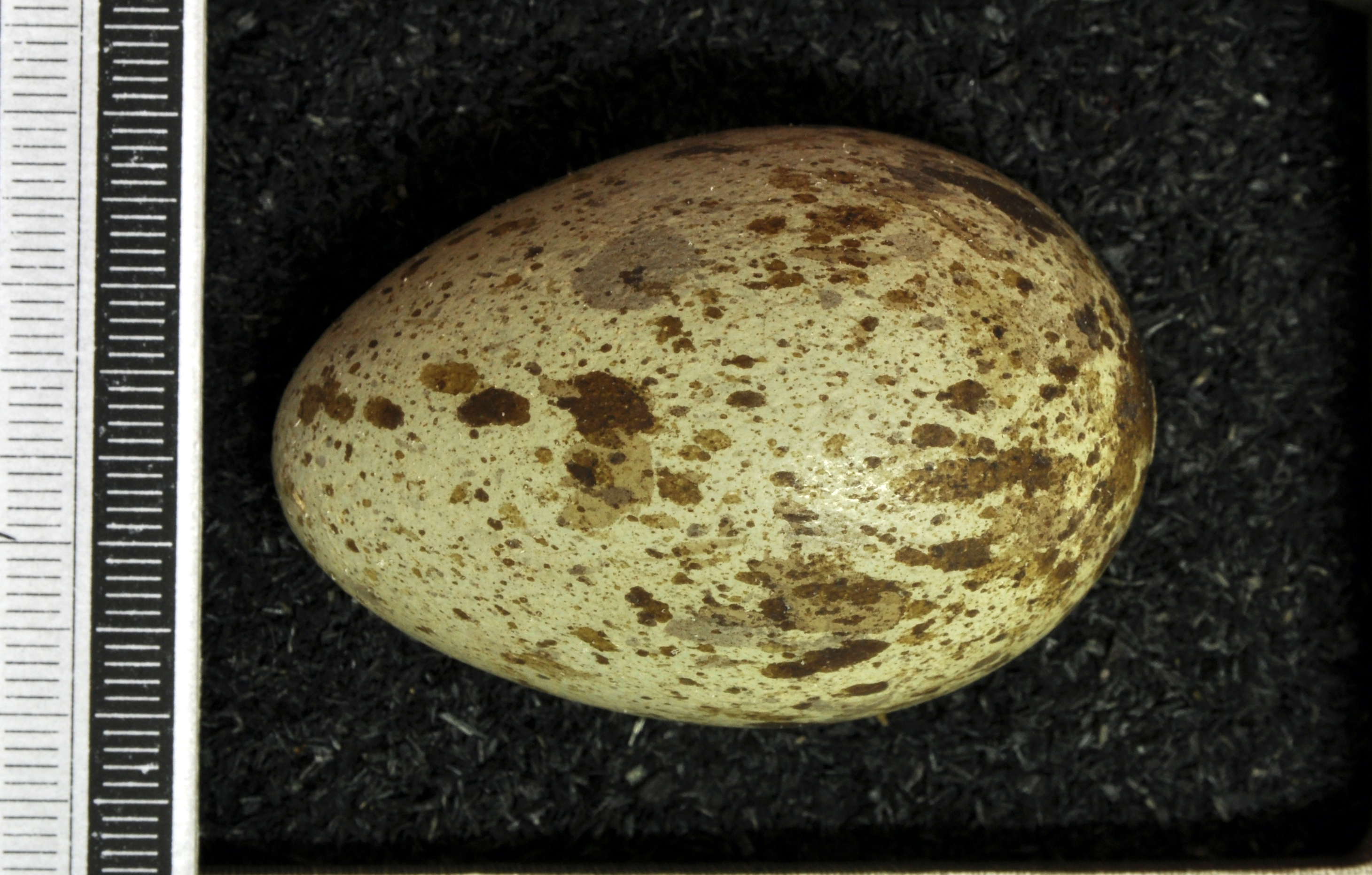 Common raven Corvus corax , egg, Coll. Museum Wiesbaden